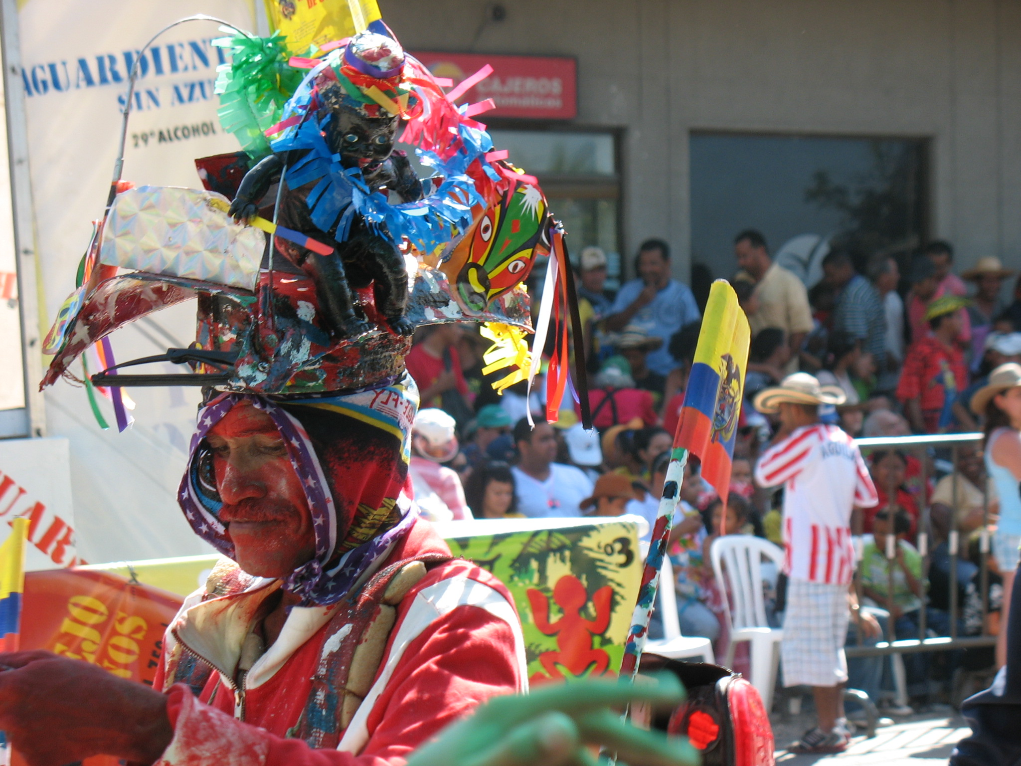 Disfraz Carnaval Barranquilla